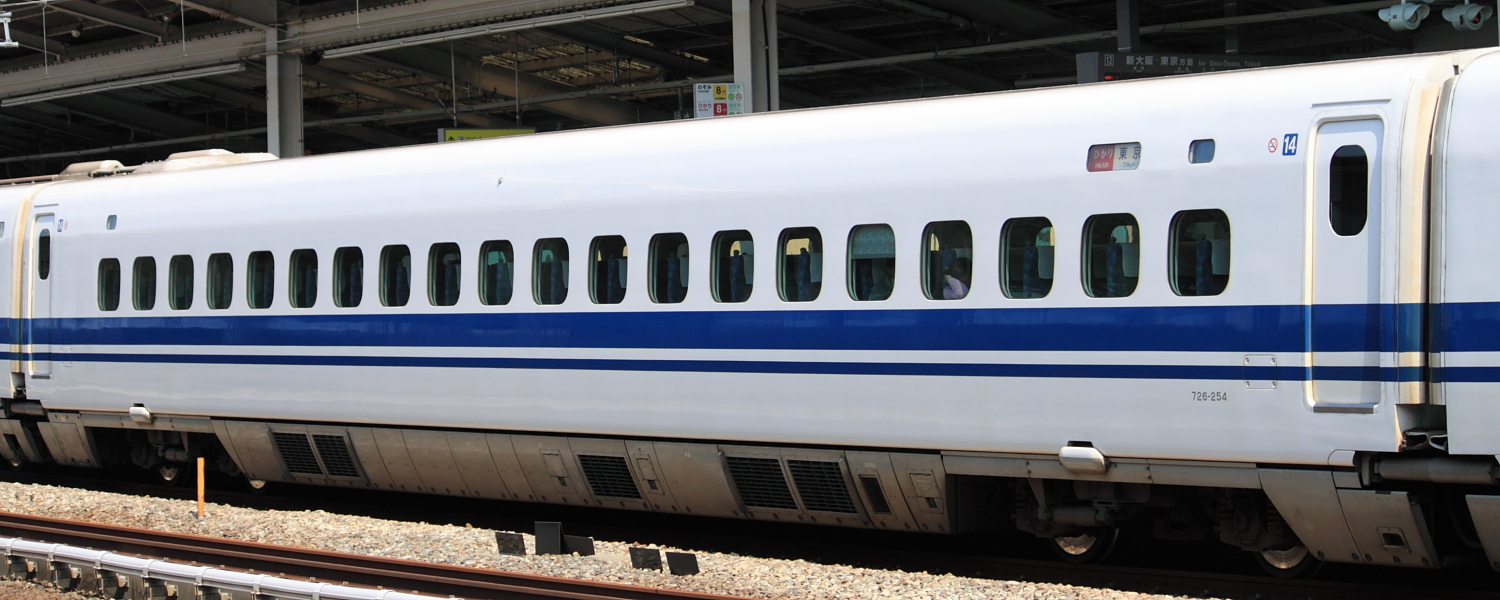 JRC Shinkansen Series 700 C55 sets 726-254.jpg